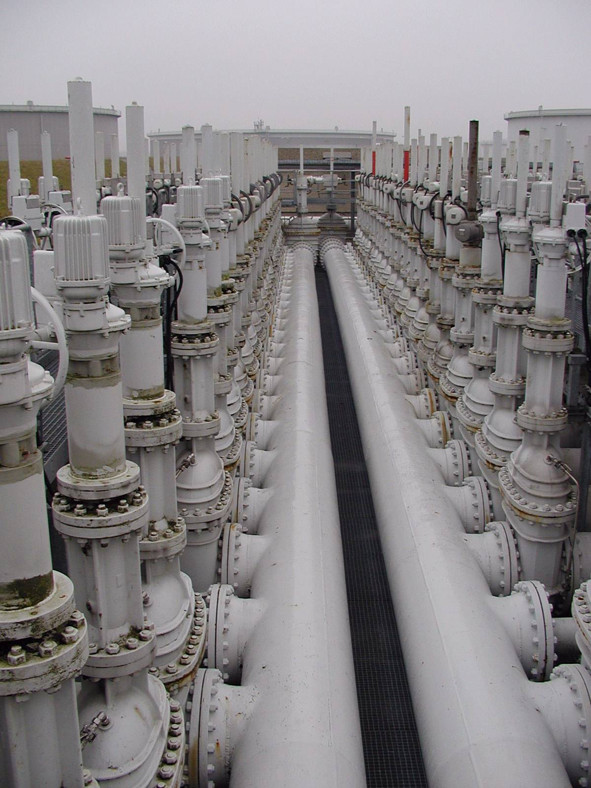 Central switching point in the oil depot of a crude oil pipeline, two valves are open (red bars)